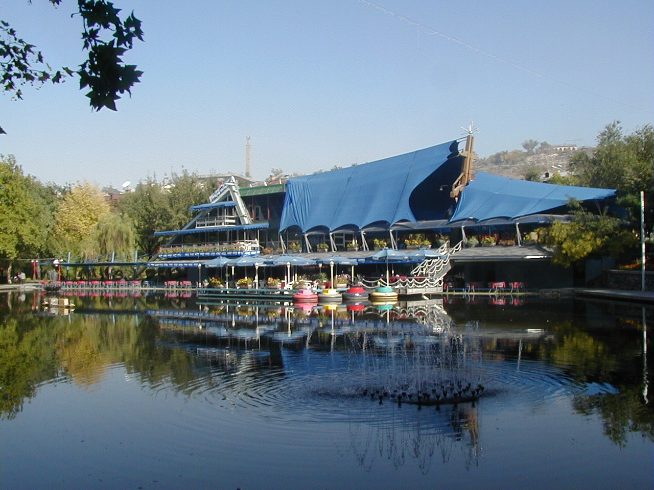 Aragast Restaurant.